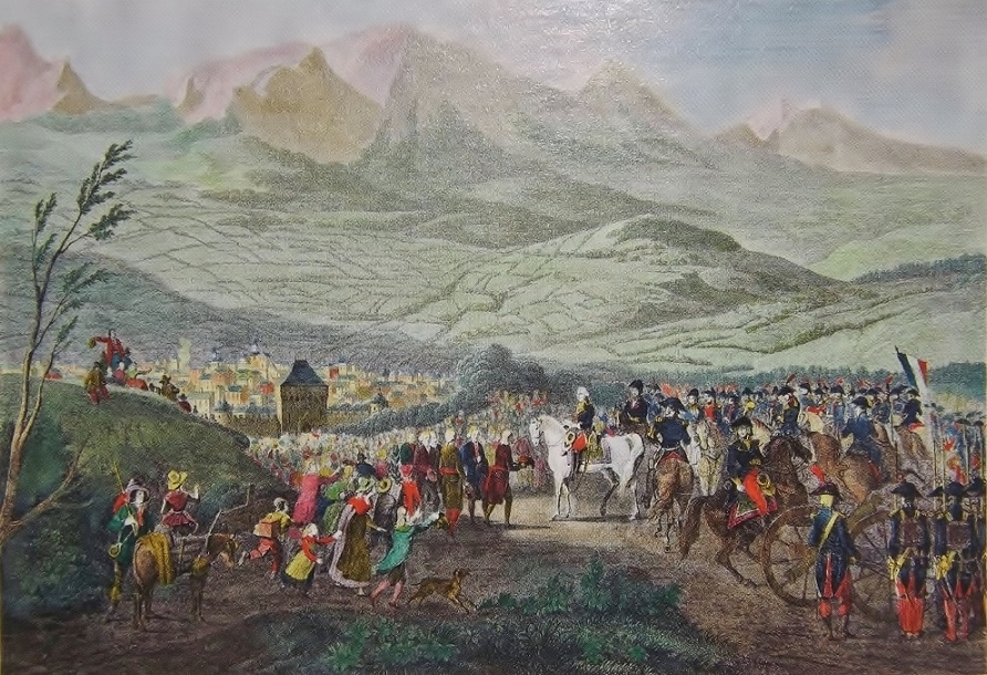 Picture of a lithograph showing the general Montesquiou Army of the South arriving at Chambéry during the French Revolution in 1792. Tho months later, the Duchy of Savoy becomes the French department of Mont-Blanc.